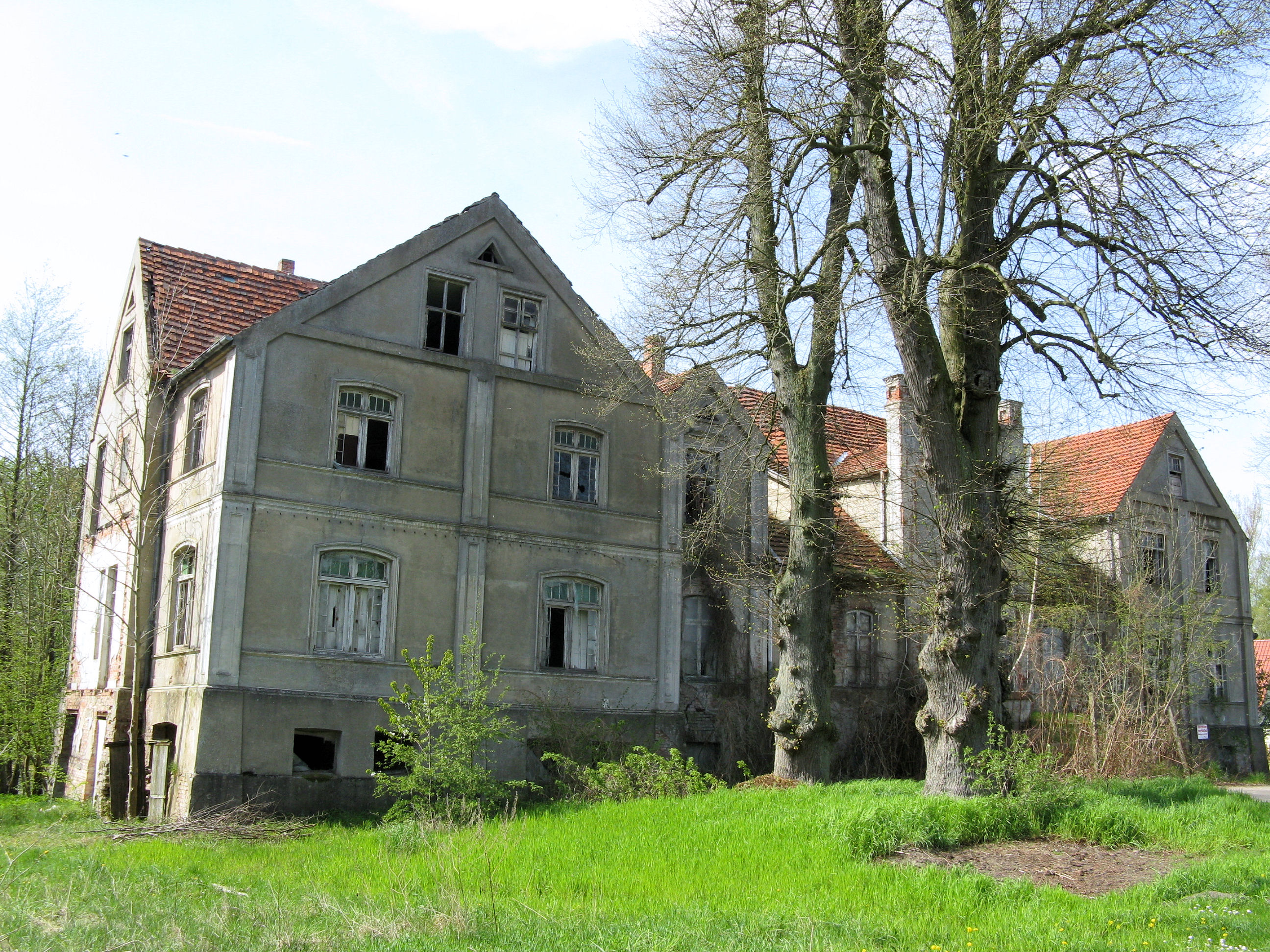 Manor house in Neese, Mecklenburg-Vorpommern, Germany